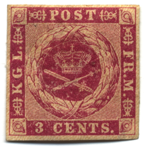 Scan of Danish West Indies 3c stamp of 1866